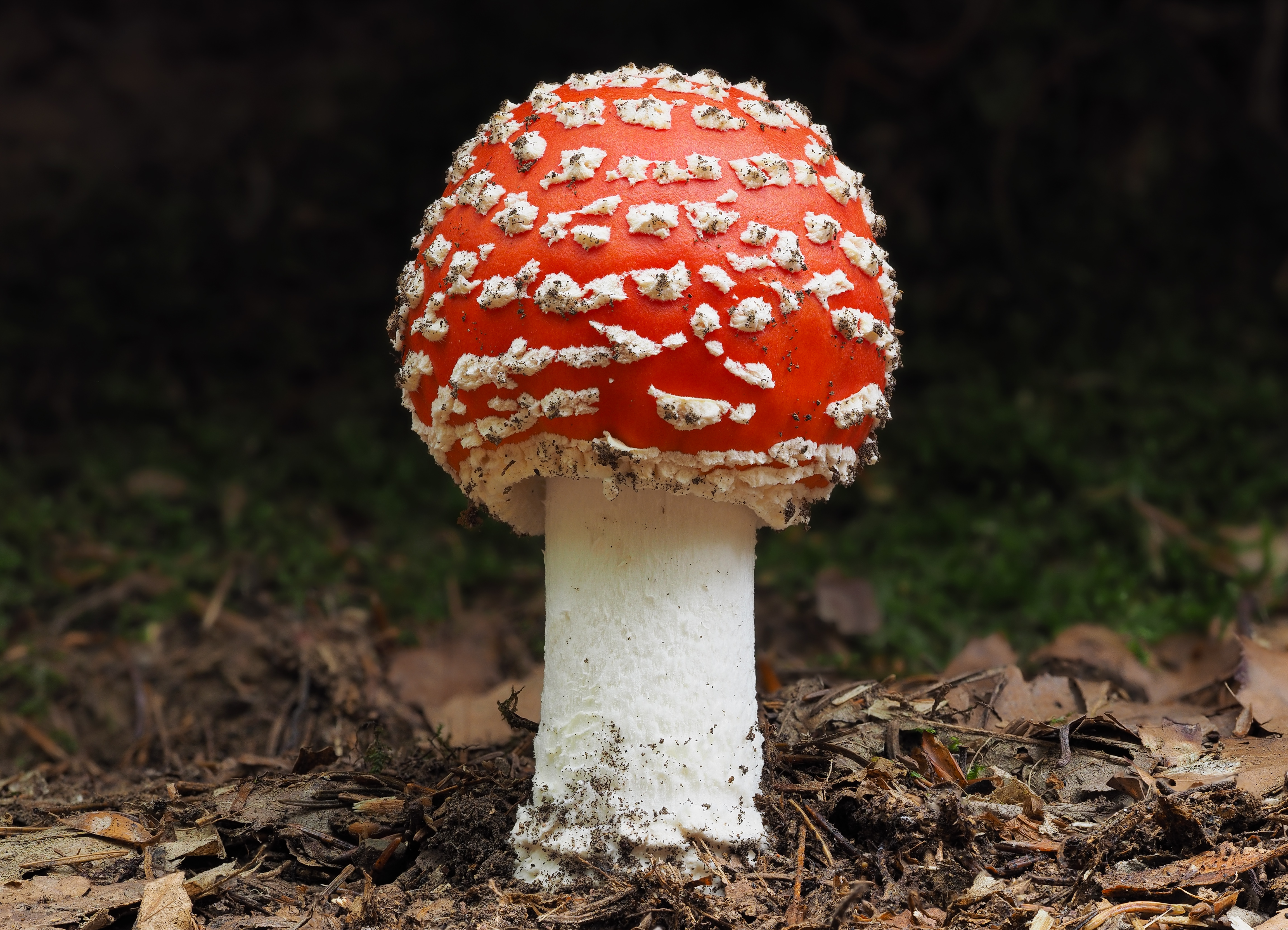 Amanita muscaria var. aureola [1] Size around 8–10 cm. Location: Golovec hill, near Ljubljana, Slovenia. Amanita muscaria var. aureola on Mycobank This photograph was taken with an Olympus E-M1